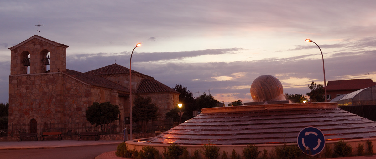 Church of Saint Teresa of Jesus in Azuqueca de Henares, Guadalajara, Spain; old church of Church of the Saviour in Alcorlo.